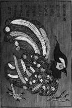 Gà độc (Cock), an example of Kim Hoang painting. The author was unknown because this is a traditional genre of painting which was dated back to the 18th century.